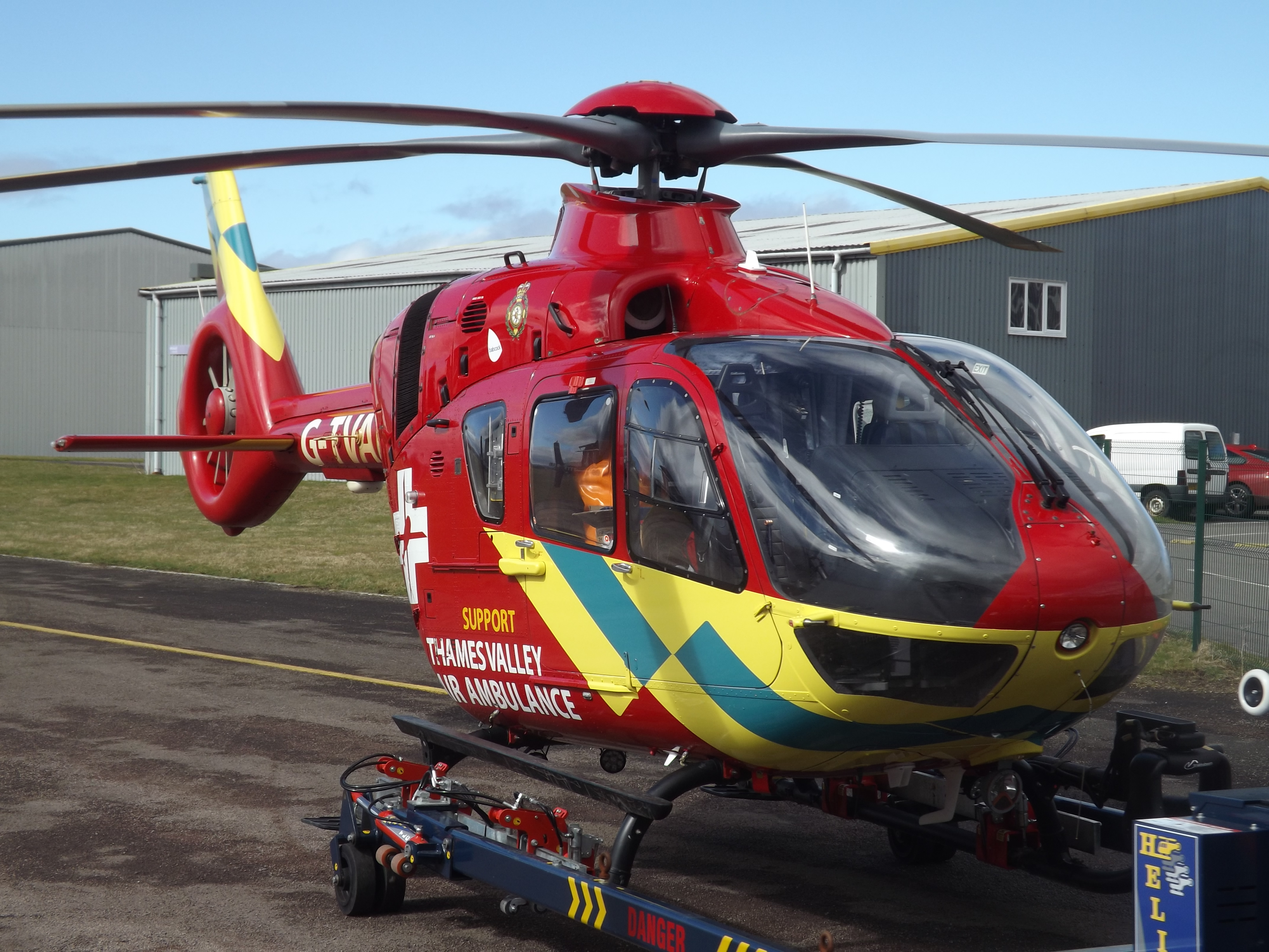 At Gloucestershire Airport.